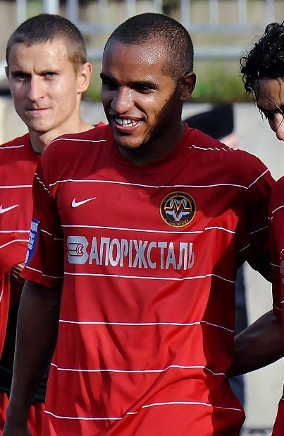 Fabiano de Lima Campos Maria, Brasilian footballer, after the game for FC Metalurh Zaporizhya